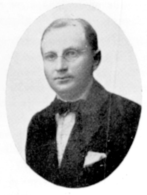 Polish psychiatrist Rafał Becker (1891-1939?)